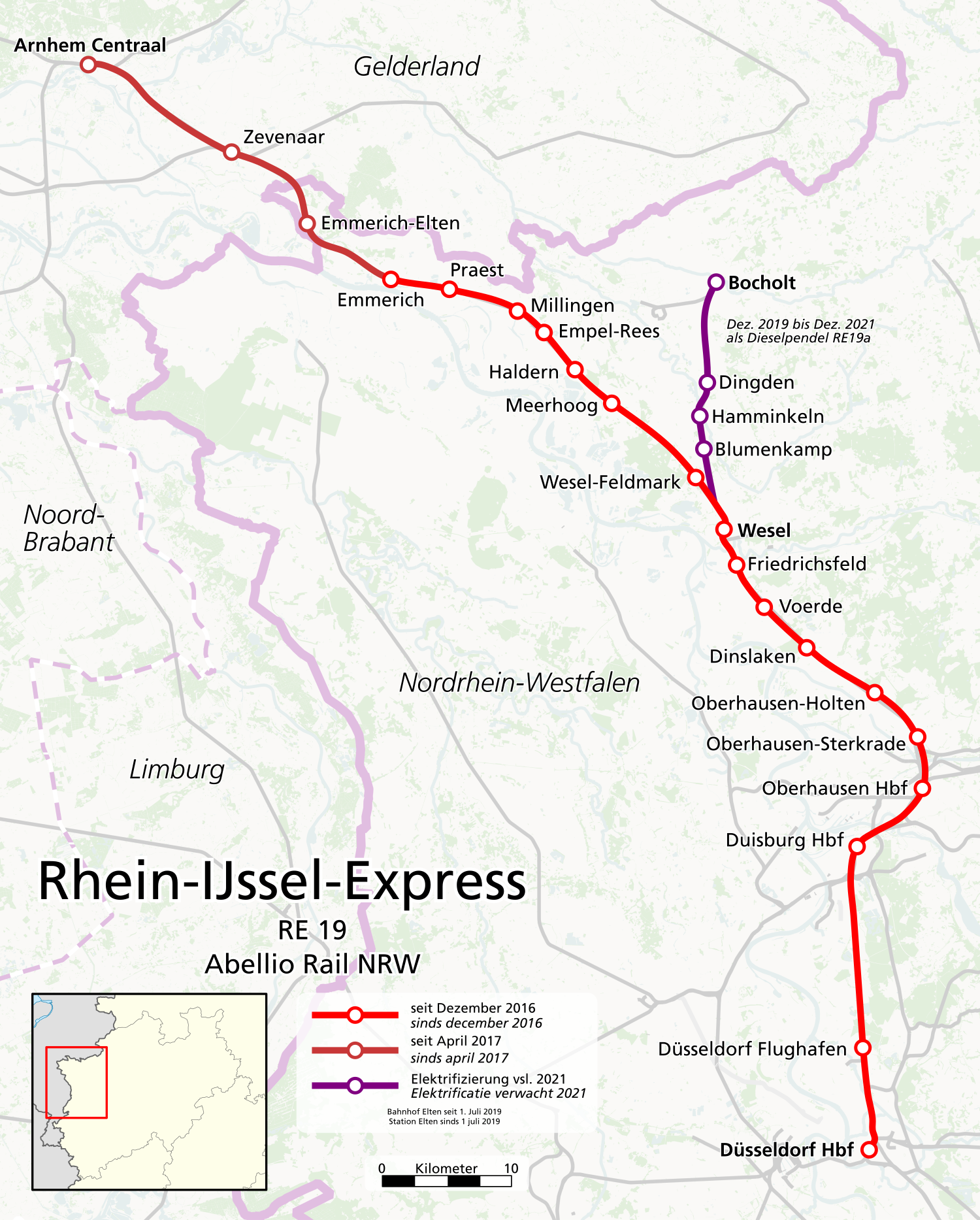 This map may be incomplete, and may contain errors. Don't rely solely on it for navigation.